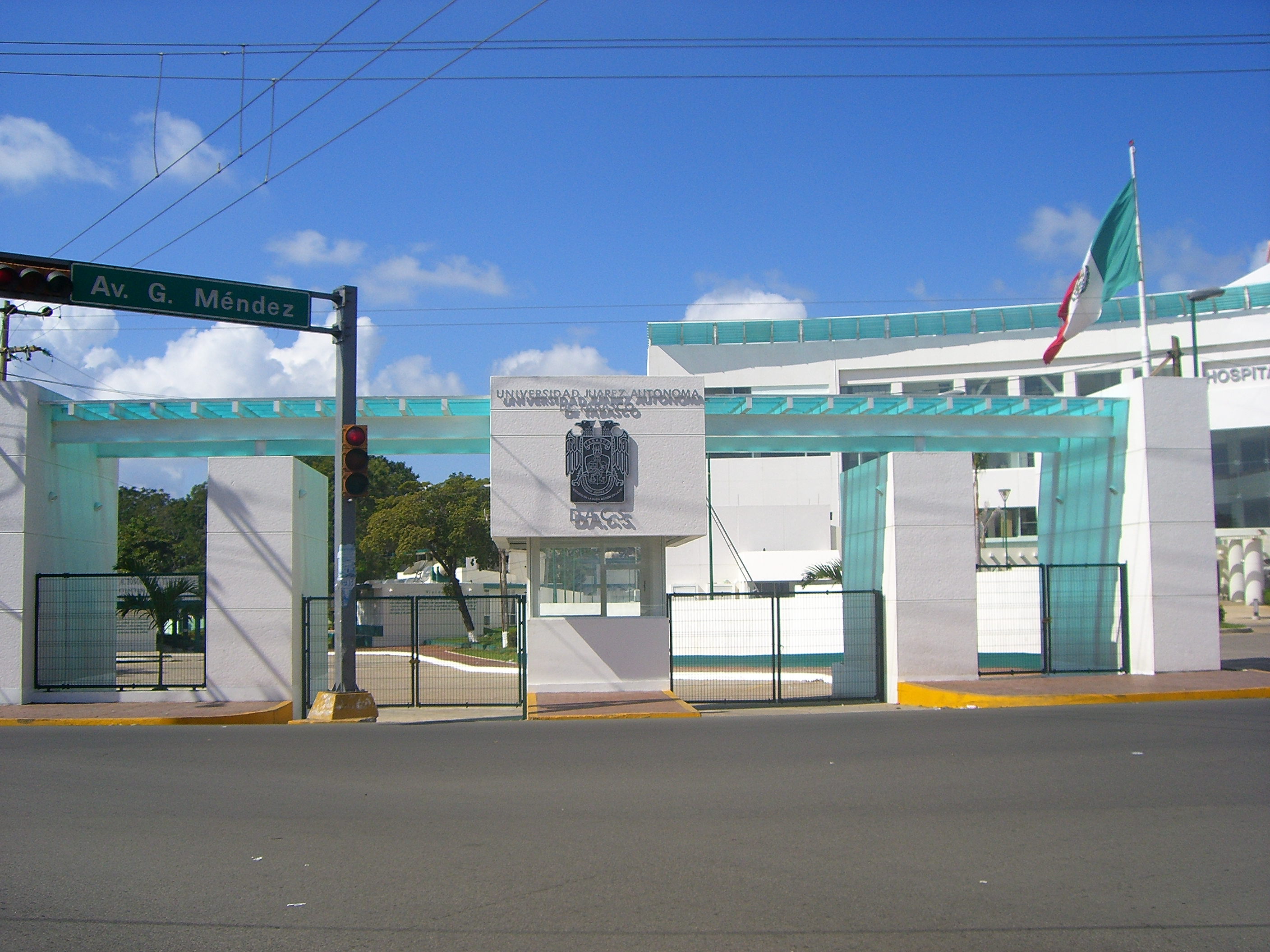 Universidad Juarez Autonoma de Tabasco